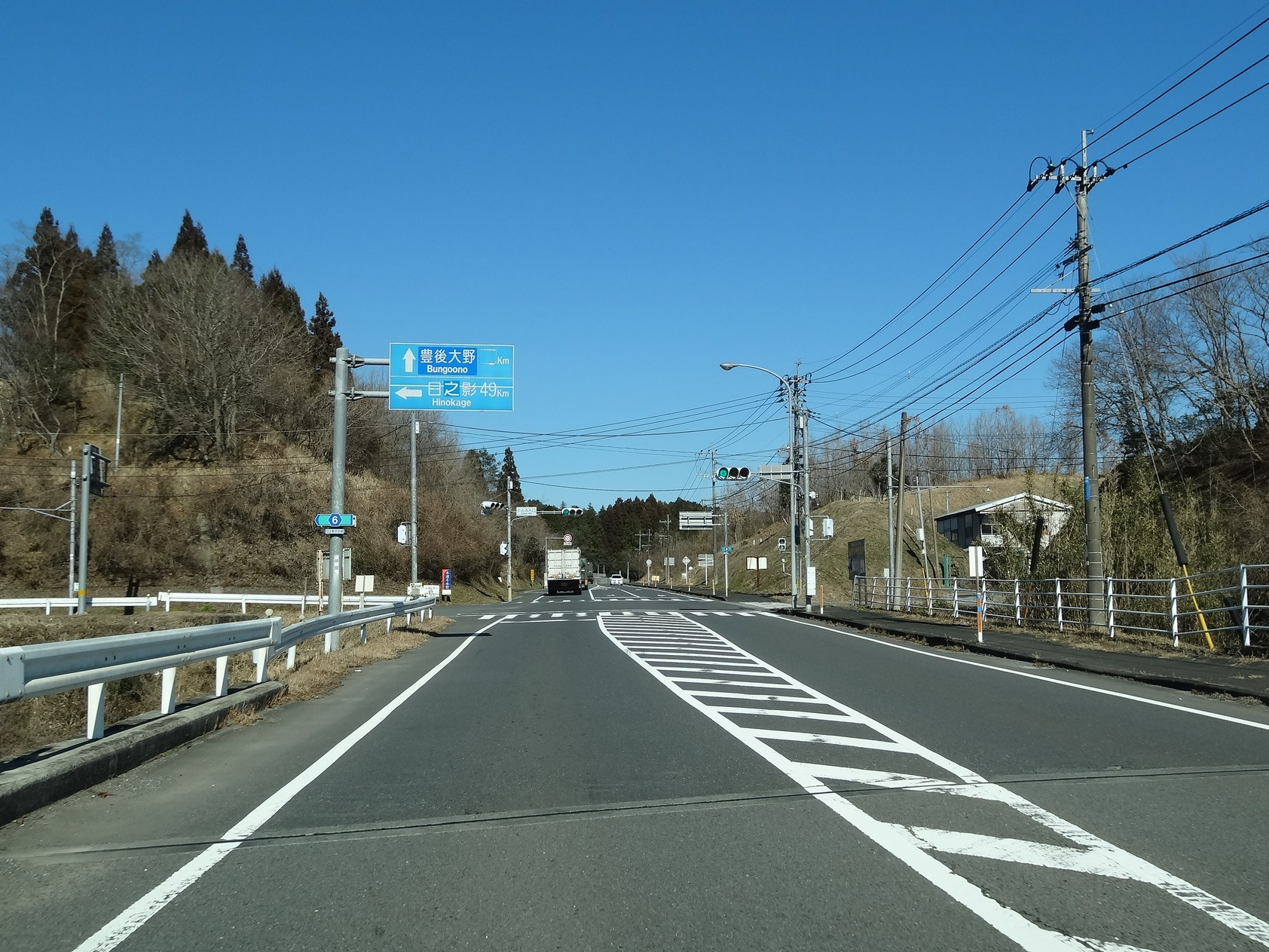 National Route 326 in Ume, Saiki City, Oita Prefecture, Japan.